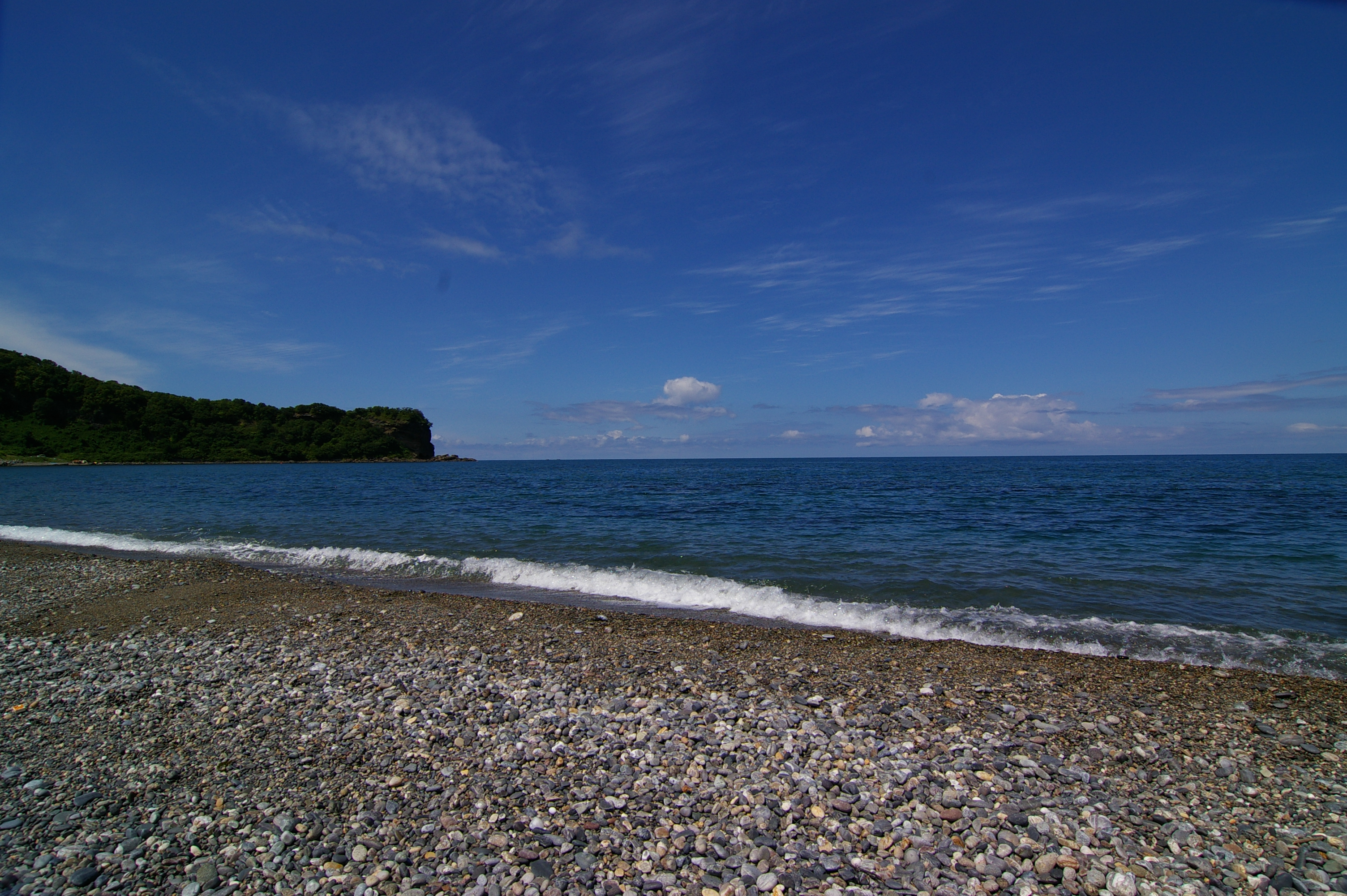 Enoshima beach in Shimamaki, Hokkaido, one of th100 greatest beaches and coasts of Japan